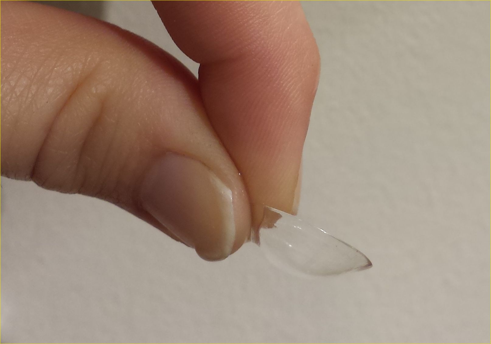 Dry eye syndrome scleral lens with visible vault, side view